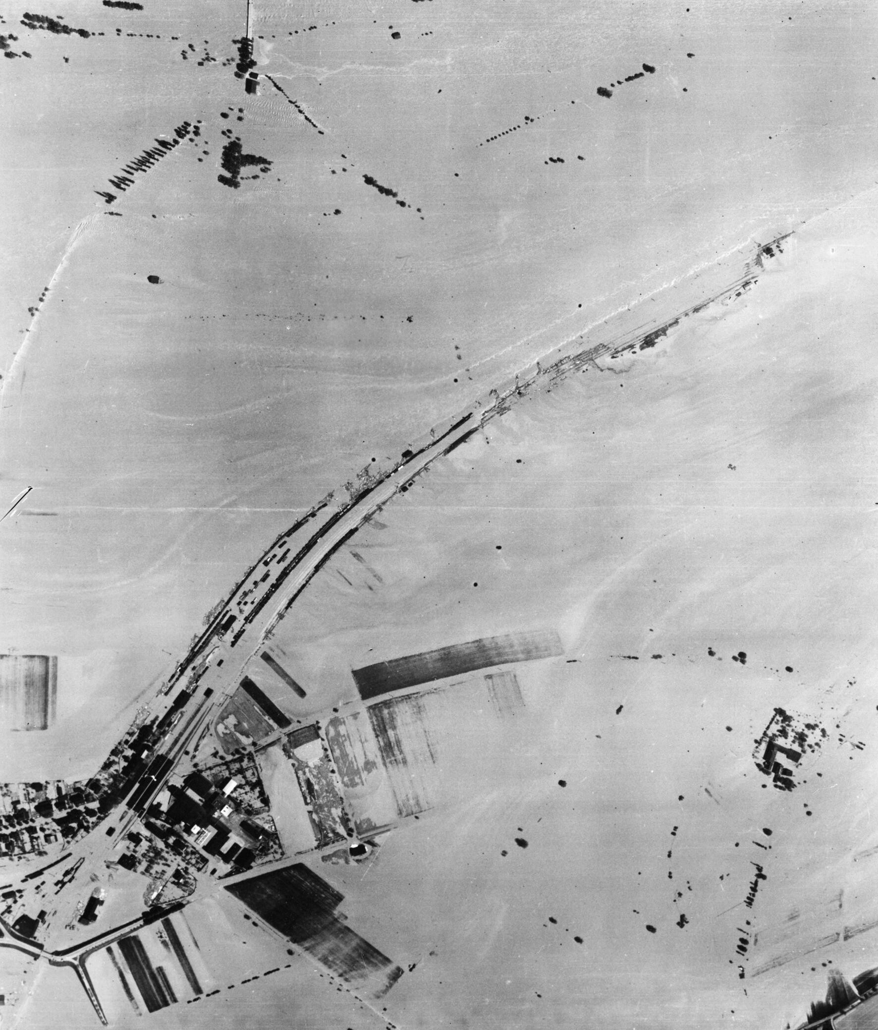 Operation Chastise (the Dambusters' Raid) 16 - 17 May 1943 The Targets: A (vertical) reconnaissance photograph showing massive flooding in the Eder Valley, here the community Wabern in the Schwalm-Eder district in northern Hesse.